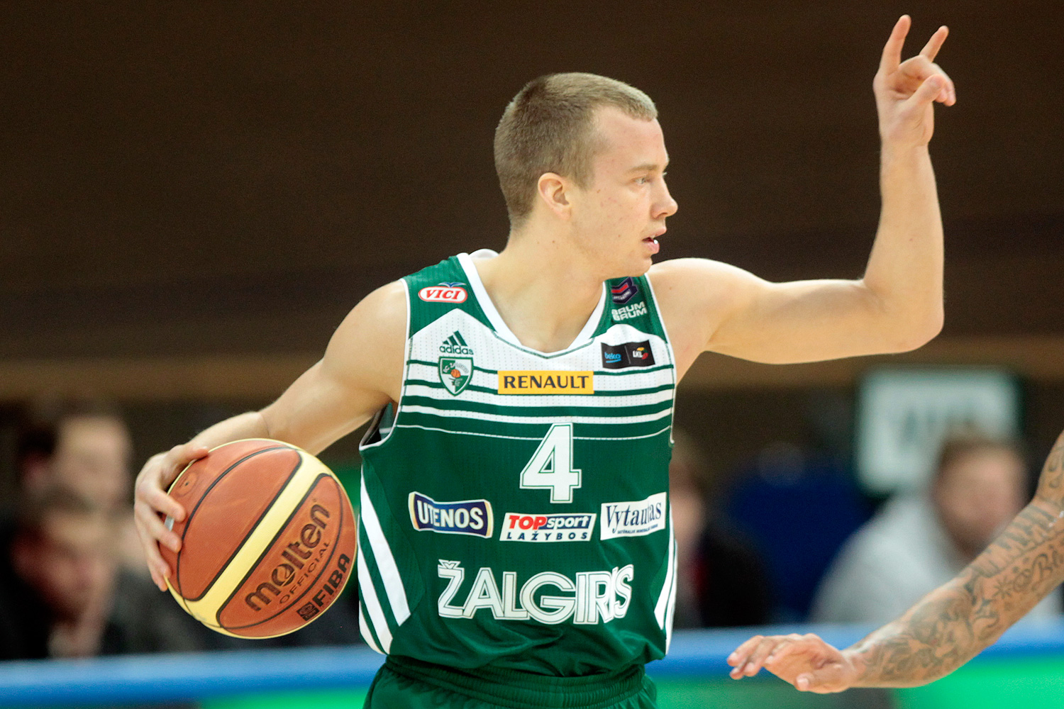 Basketball player Lukas Lekavičius